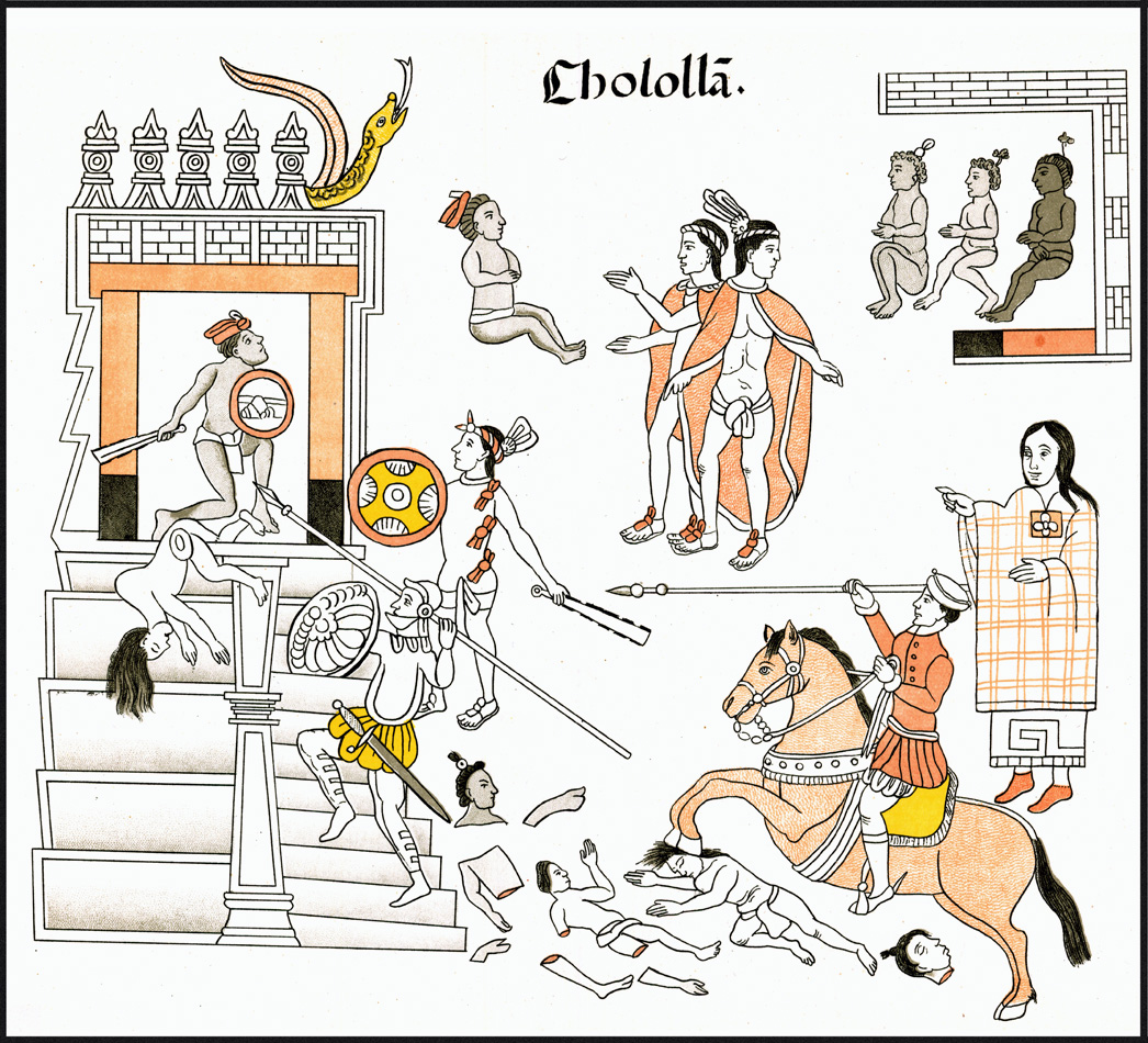 Cholula Massacre by Spanish conquistadors in 1519. Depicted by spanish tlaxcallan native allies. 1773 Reproduction from 1584 original version of the Lienzo de Tlaxcala.